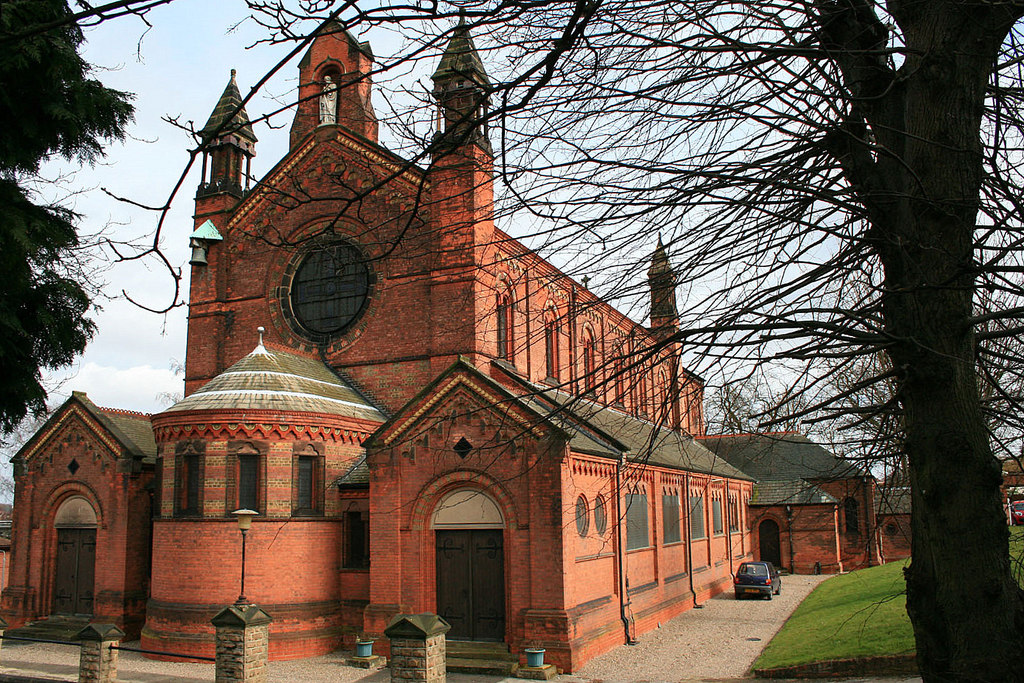 St Paul's, Carlton-in-the-Willows. The church was designed by W. A. Coombs. An elderly gentleman who approached me as I started to photograph the building told me that he was just finishing-off a book of the history of the church and that it was built for the 4th Earl of Carnarvon and it sat unfinished for six years after the money ran-out. This is somewhat confirmed by its listing (Grade II) description which dates it as 1885 and 1891. A plaque on the outside of the chancel confirms the patronage 1738840.